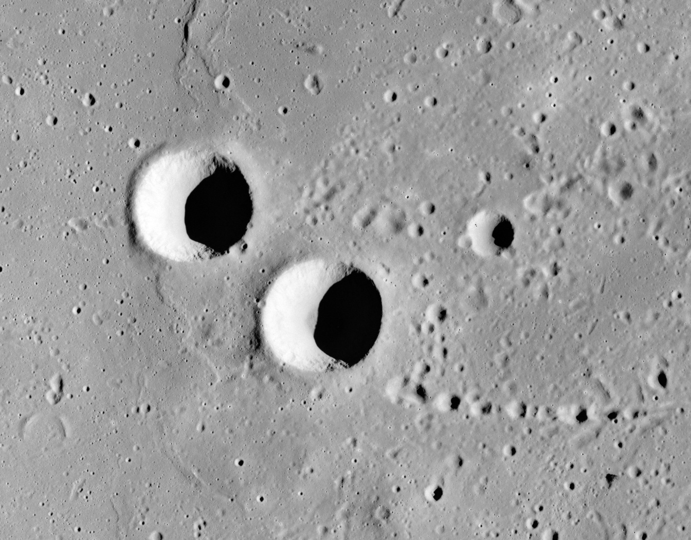 Feuillée (upper left) and Beer (lower right) craters, on the moon.